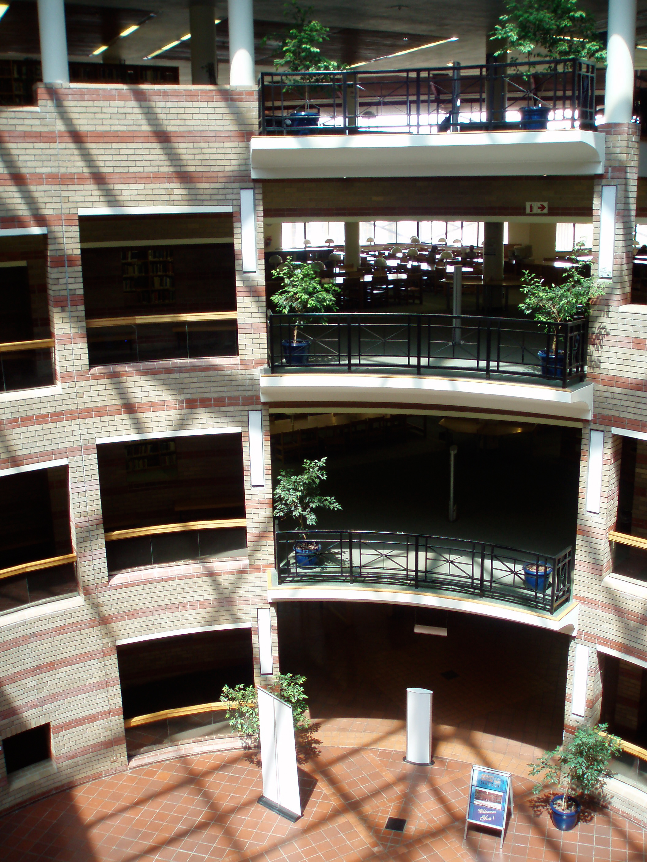 The circular inside of University of Western Cape's main library